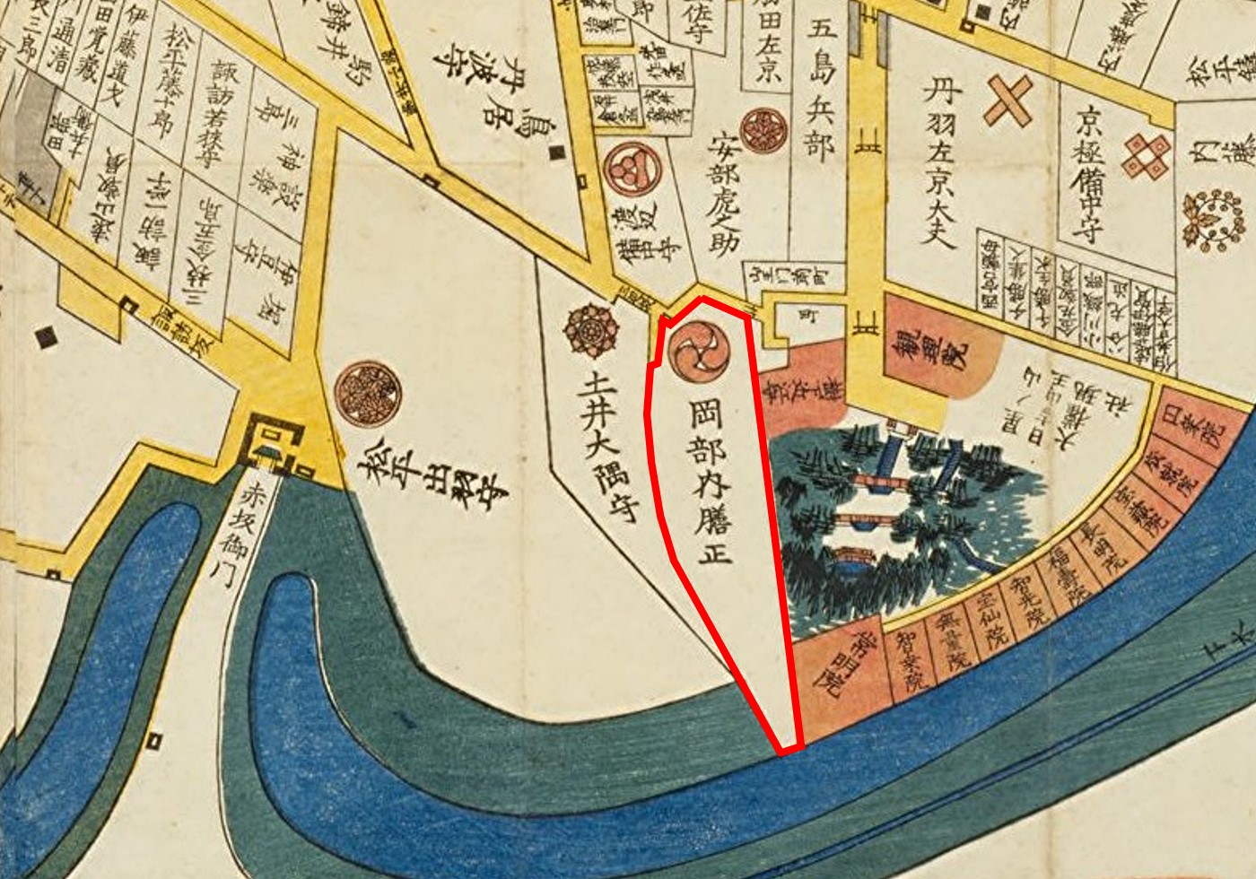 Residence of Okabe clan at Edo